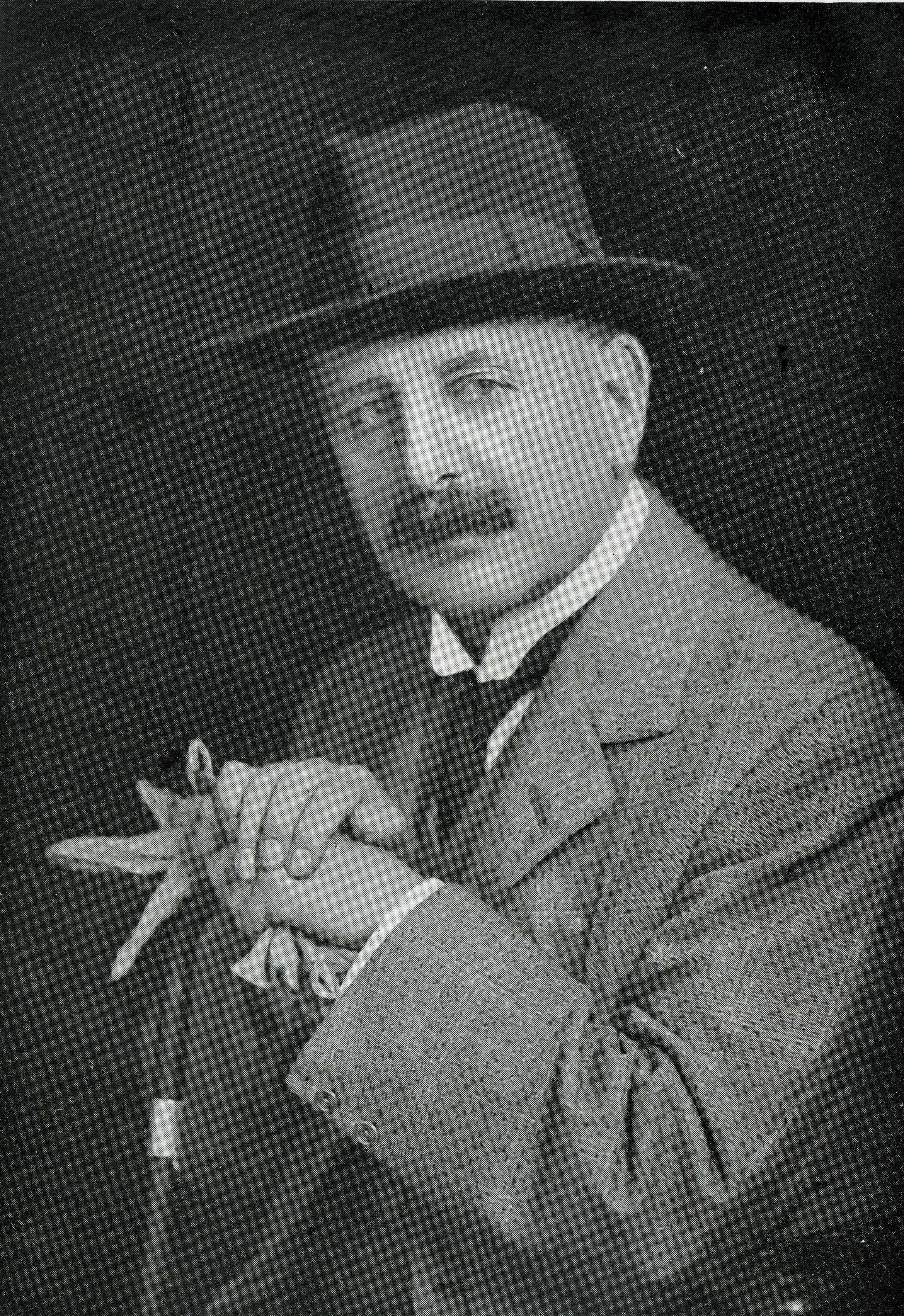 Photo of Arthur George Hill.